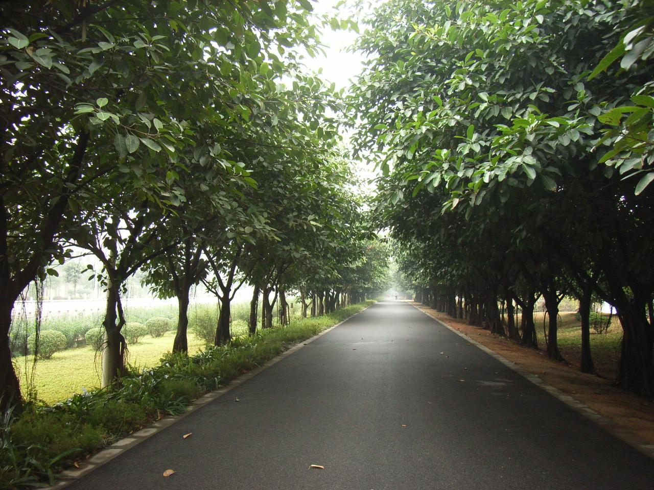 廣州大夫山森林公園 [1]